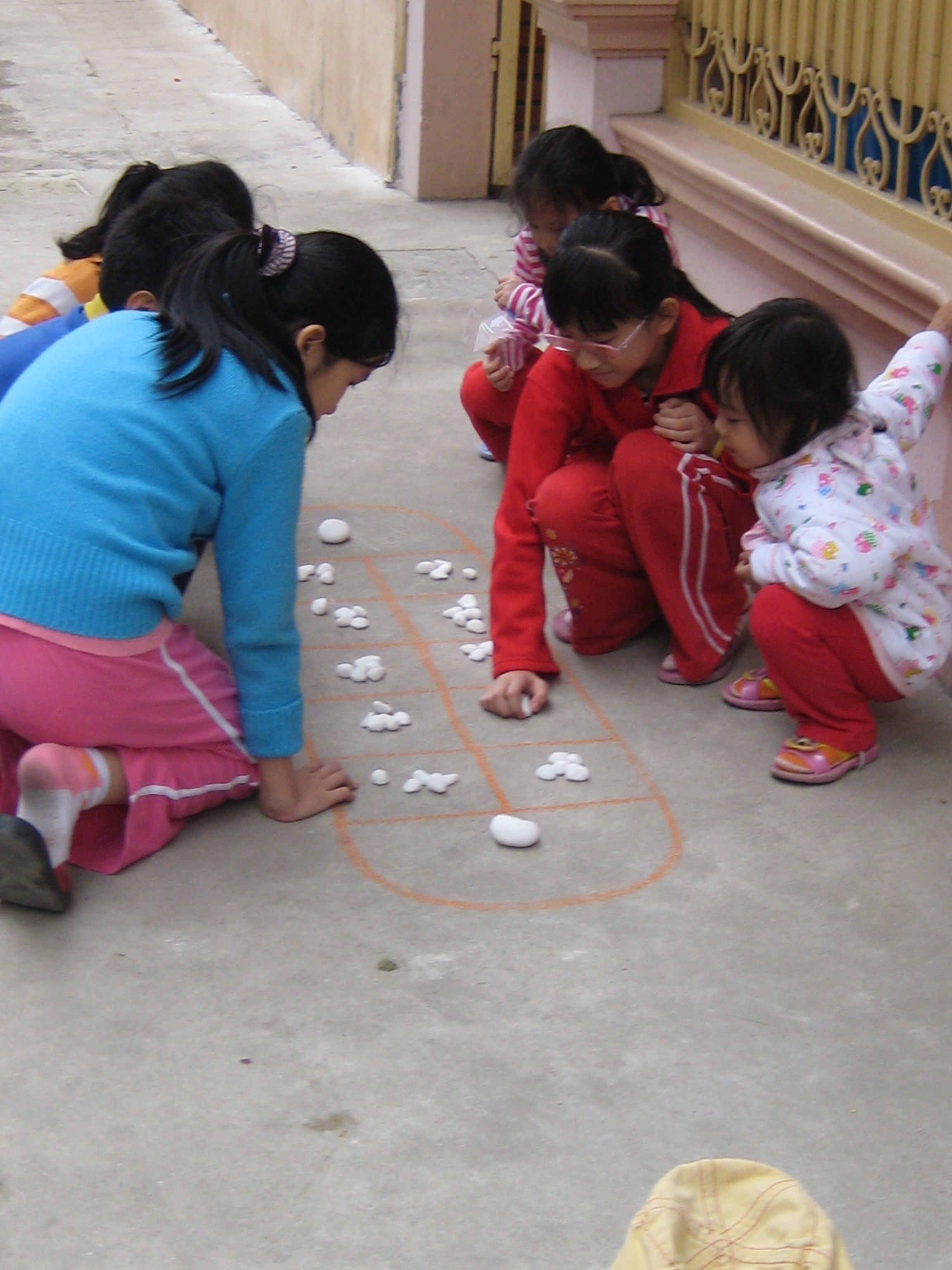 "O an quan", a Vietnamese traditional game, which is similar to Mancala.